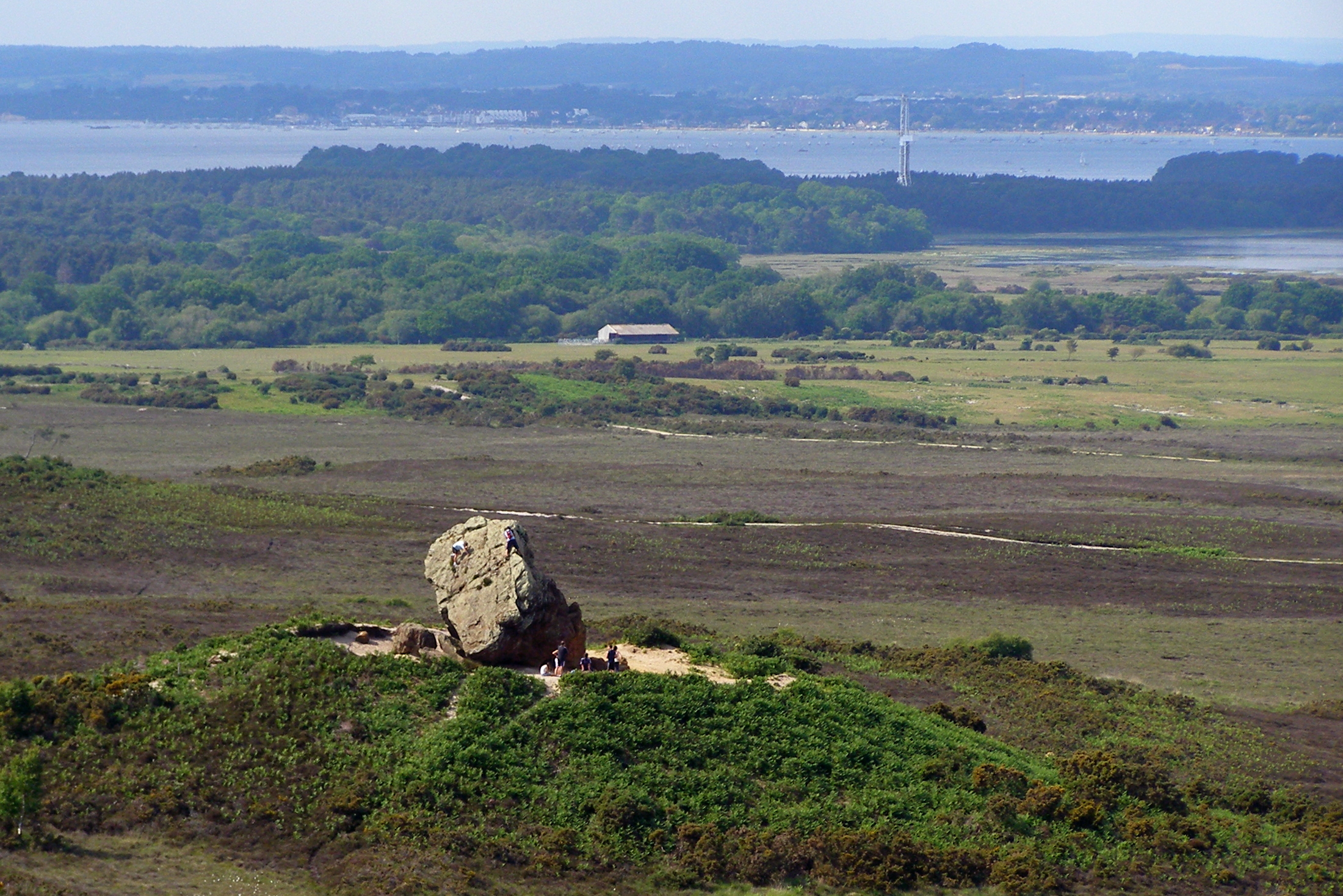 The Agglestone on Black Heath, with Poole Harbour in the background.